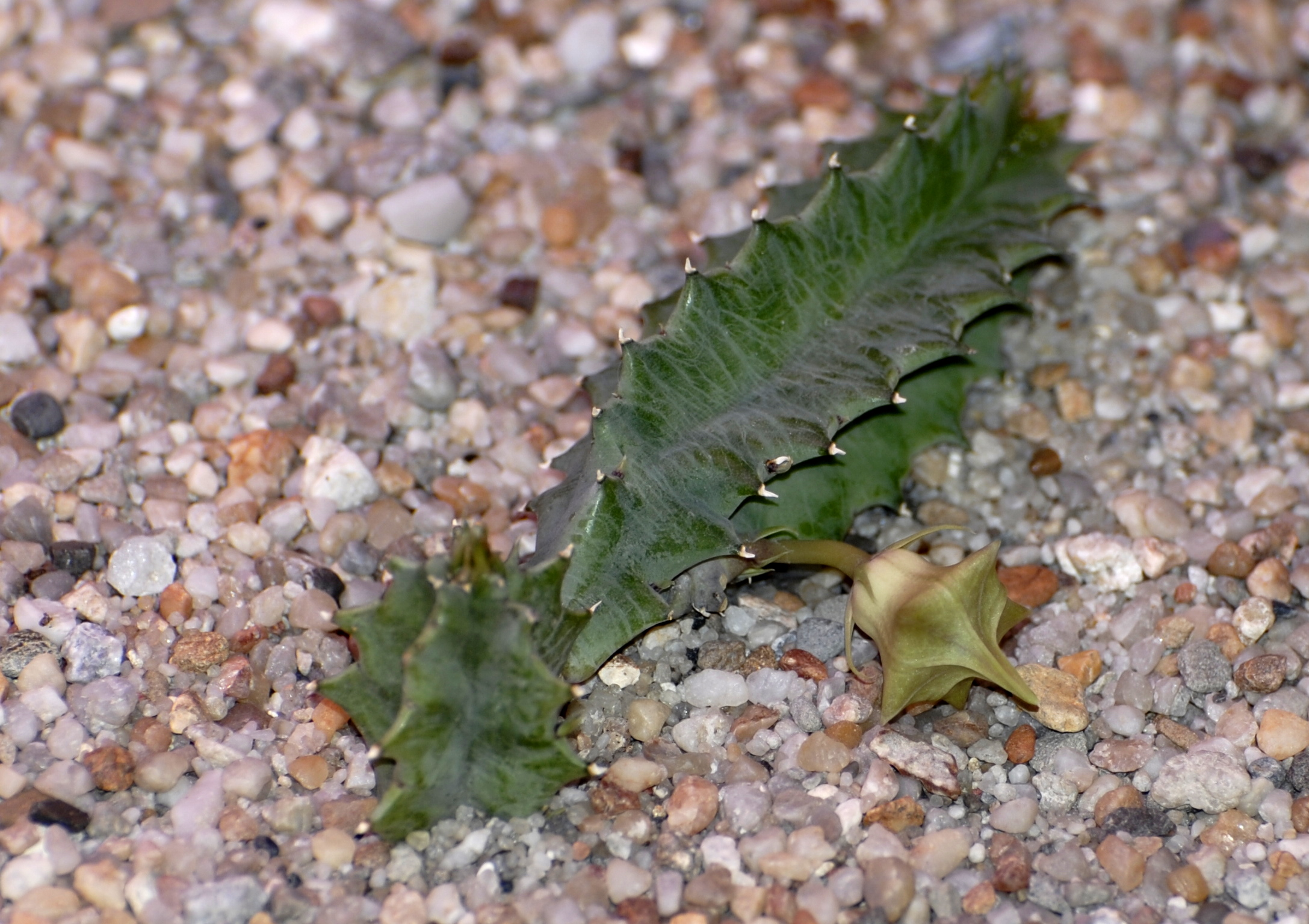 Huernia zebrina flower bud